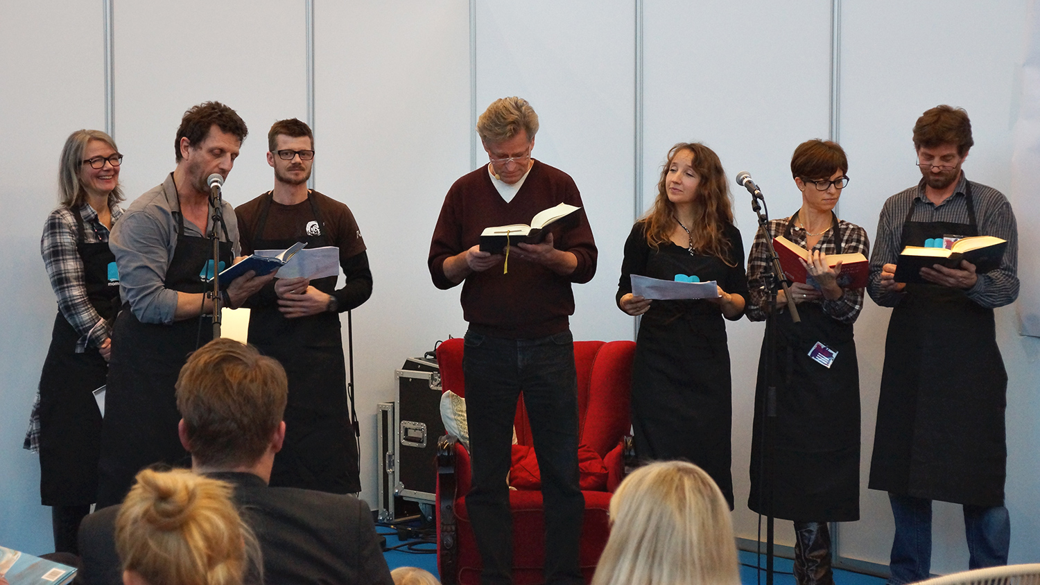 Danish actors and actresses from the audiobook publisher "Momolydbog" reading from "Hans Christian Andersens Fairy Tales" during the Copenhagen Book Fair "BogForum 2012", Copenhagen, Denmark - from left Vibeke Hastrup, Søren Hauch-Fausbøll, Thomas Magnussen, Søren Spanning, Linda Elvira, Louise Herbert og Morten Hauch-Fausbøll